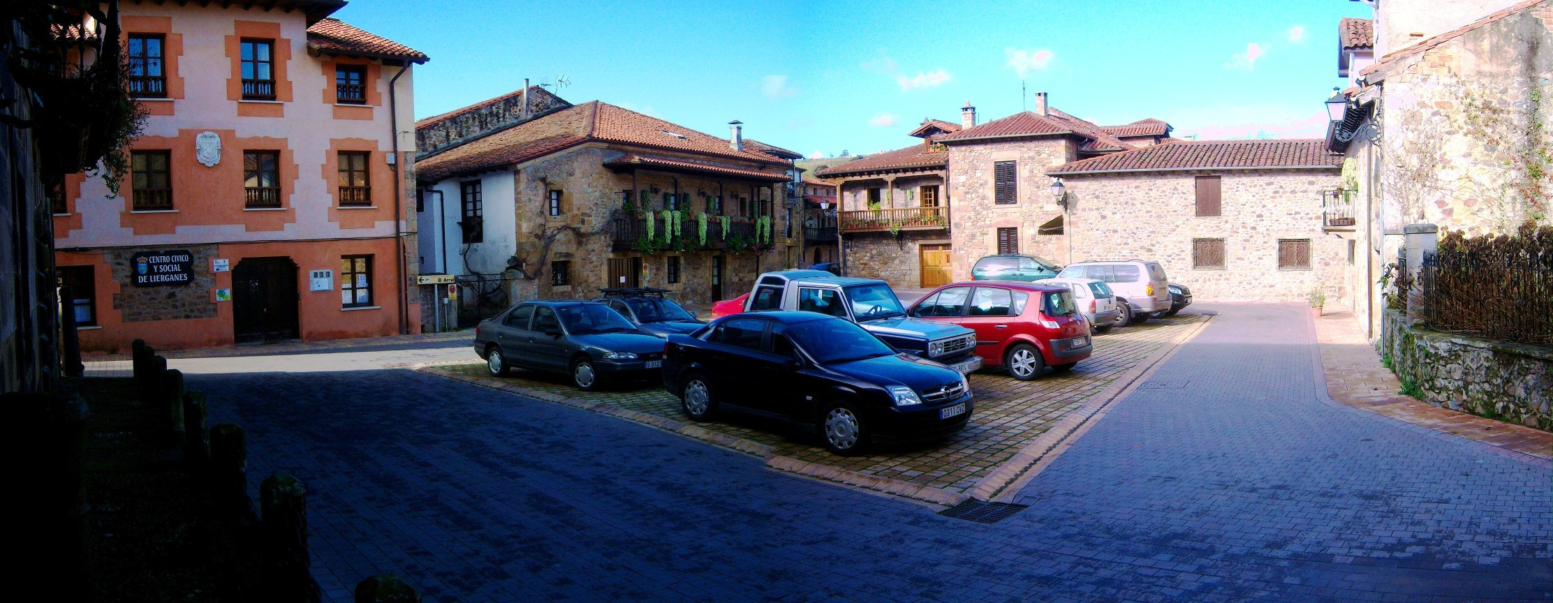 Marqués de Valdecilla Square. Liérganes (Cantabria, Spain)